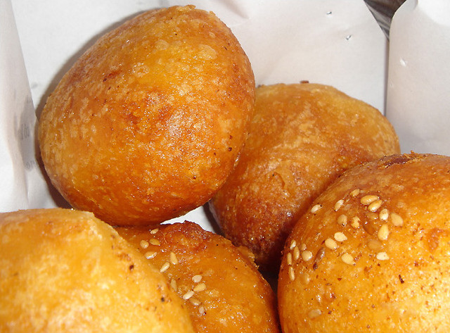 A container of bánh rán, just out of the hot cooking oil.